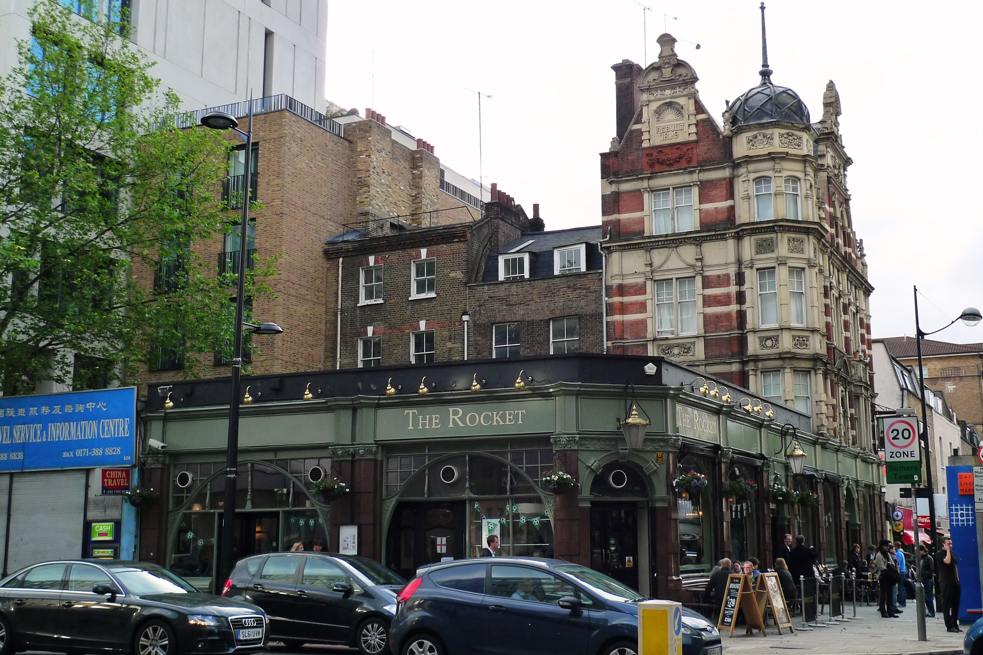 A grand old pub on Euston Rd, on the Euston station side, restored from its previous incarnation as a student pub. (Older photo of it as a Scream pub.) Address: 120 Euston Road. Former Name(s): The Friar and Firkin; The Rising Sun. Owner: Mitchells and Butlers [Metro Professionals] (website); Mitchells and Butlers [Scream] (former); Firkin Pub Co (former). Links: Fancyapint Pubs Galore Beer in the Evening Pubs History (history)